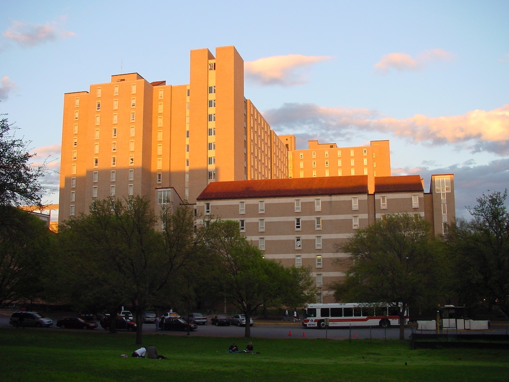 Jester Dormitory on the campus of the University of Texas at Austin